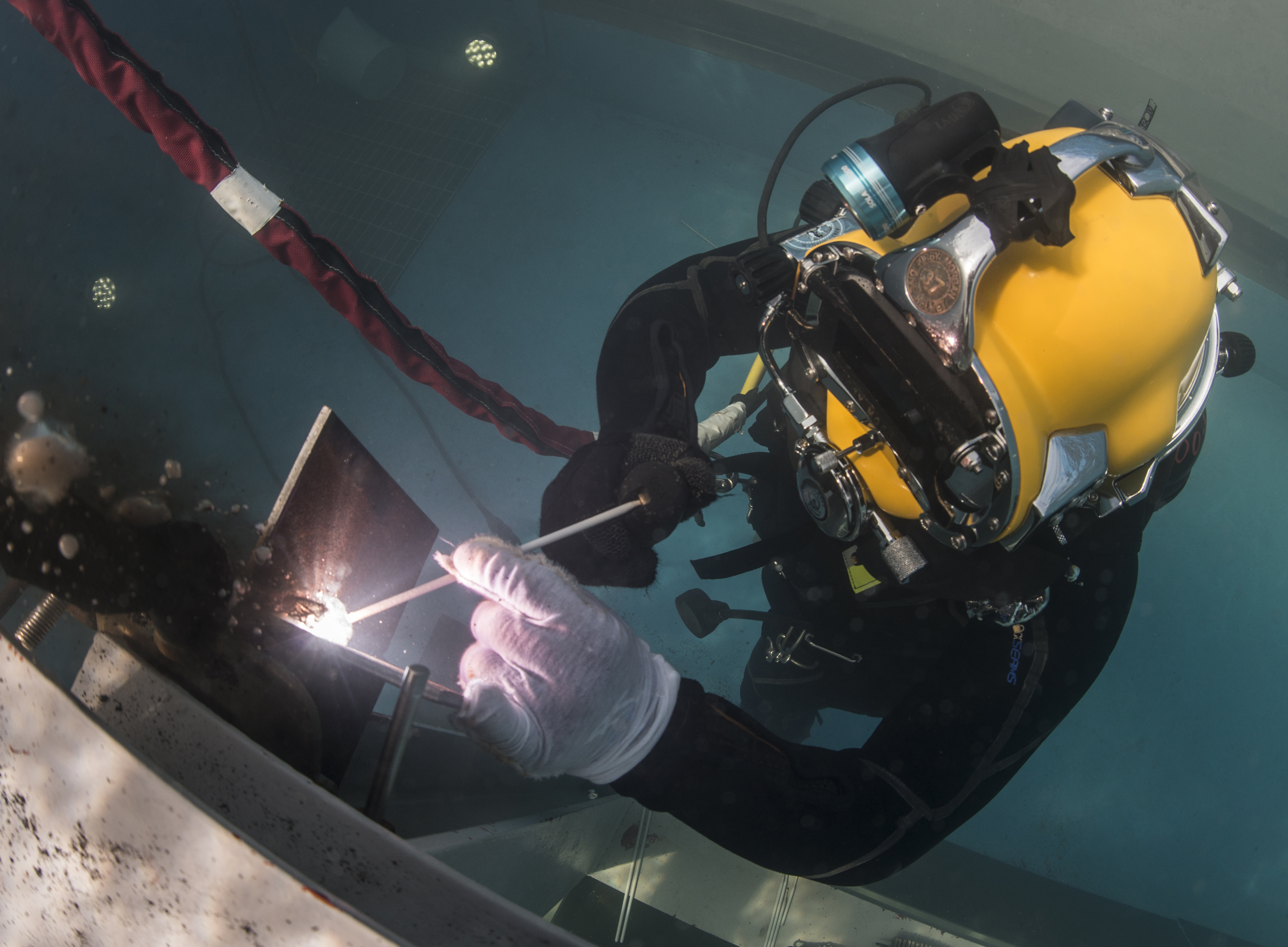 JINHAE, Republic of Korea (March 15, 2016) U.S. Navy Builder 2nd Class Jesus Saucedo Gomez (right) with Underwater Construction Team (UCT) 2, performs an underwater fillet weld in a training pool at the ROK engineering school at Jinhae, ROK during exercise Foal Eagle 2016. Foal Eagle is an annual, bilateral training exercise designed to enhance the readiness of U.S. and ROK forces, and their ability to work together during a crisis. (U.S. Navy combat camera photo by Mass Communication Specialist 1st Class Charles E. White/Released)160315-N-GO855-140 Join the conversation: navylive.dodlive.mil